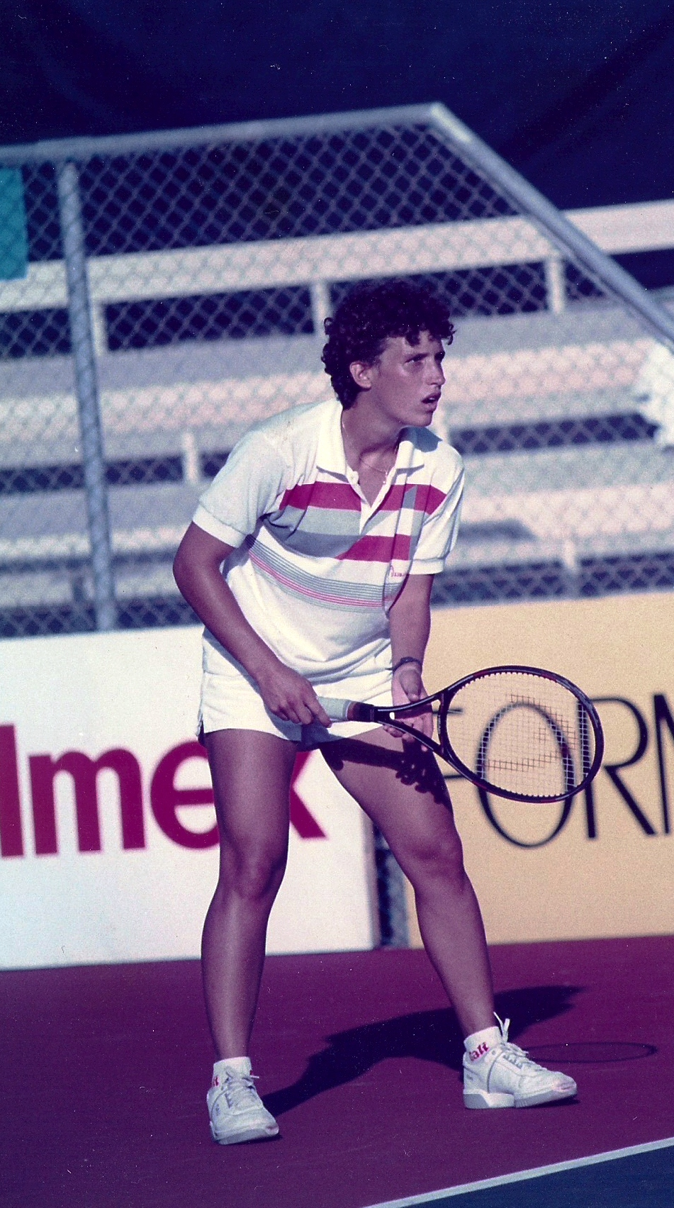 Israeli Tennis player Ilana Berger